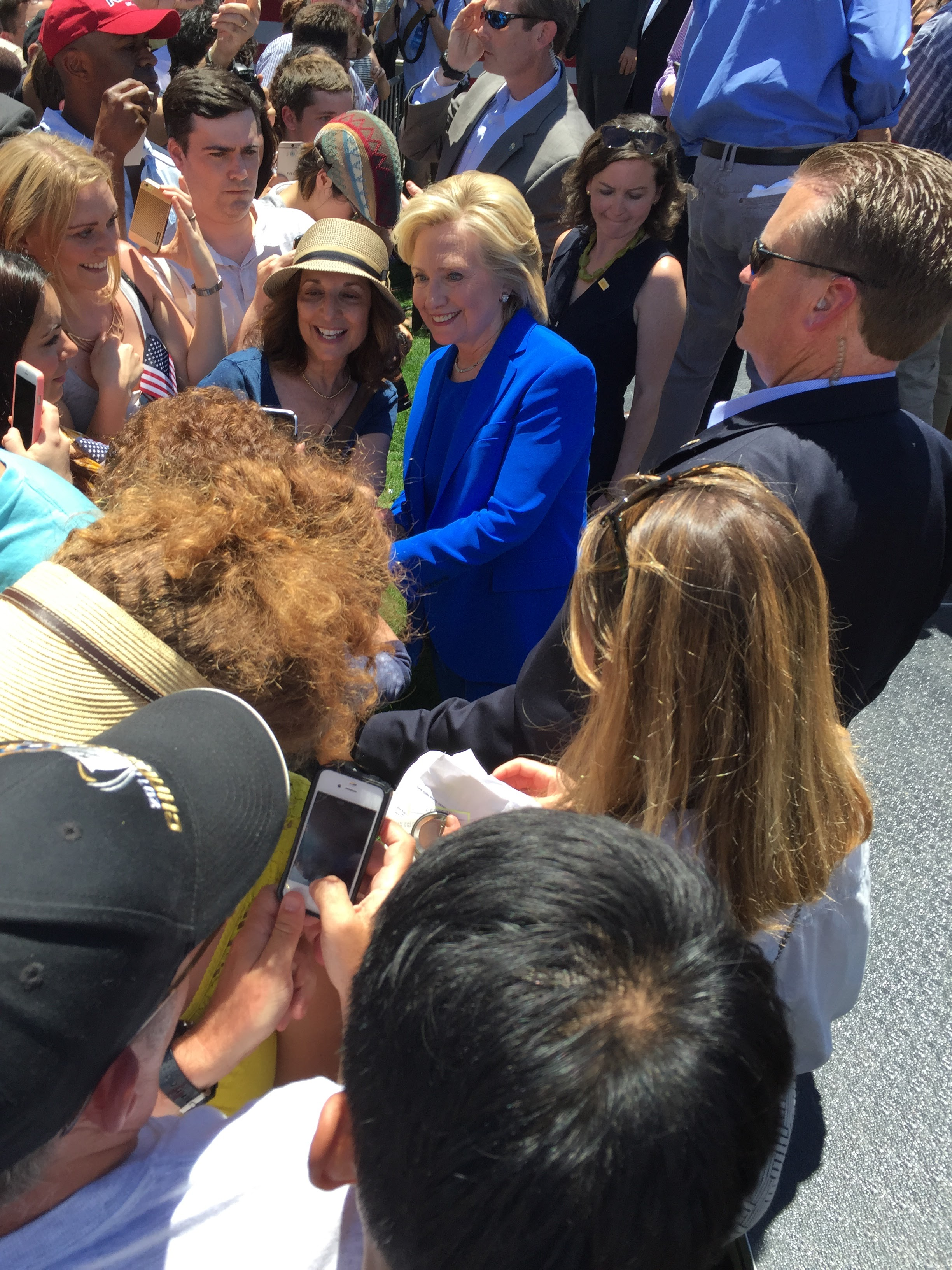 Hillary Clinton 2016 Kickoff — Selfie